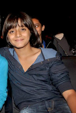 Armaan Verma